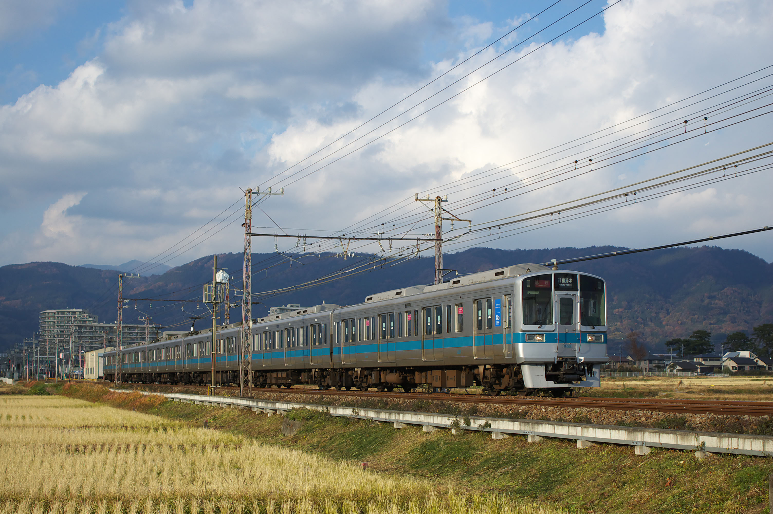 Odakyu electric railway type 1000 electric car. 小田急1000形電車。開成-栢山間にて。